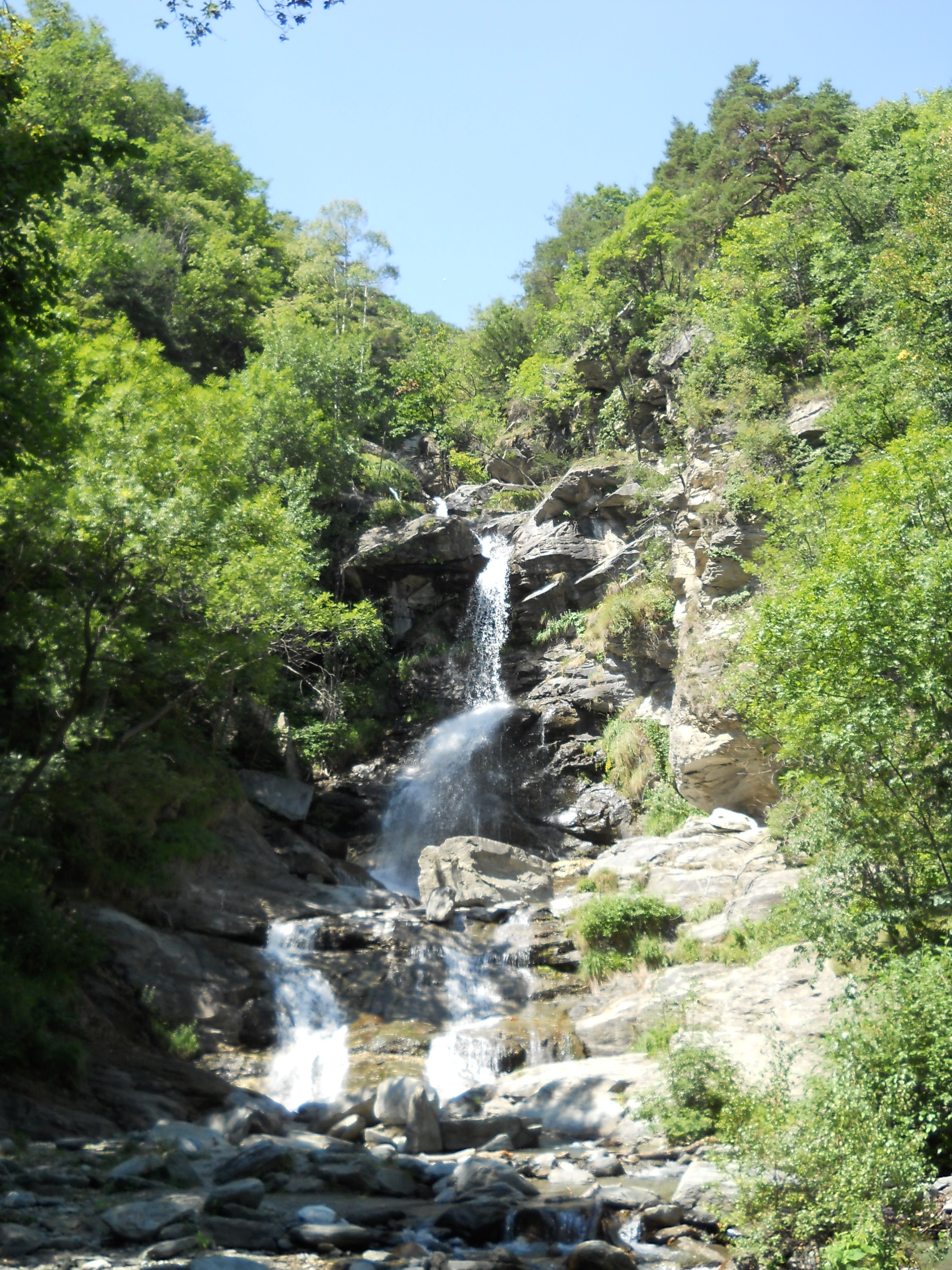 "Coda di cavallo" (horse tail) waterfall, Novalesa, Turin, Italy